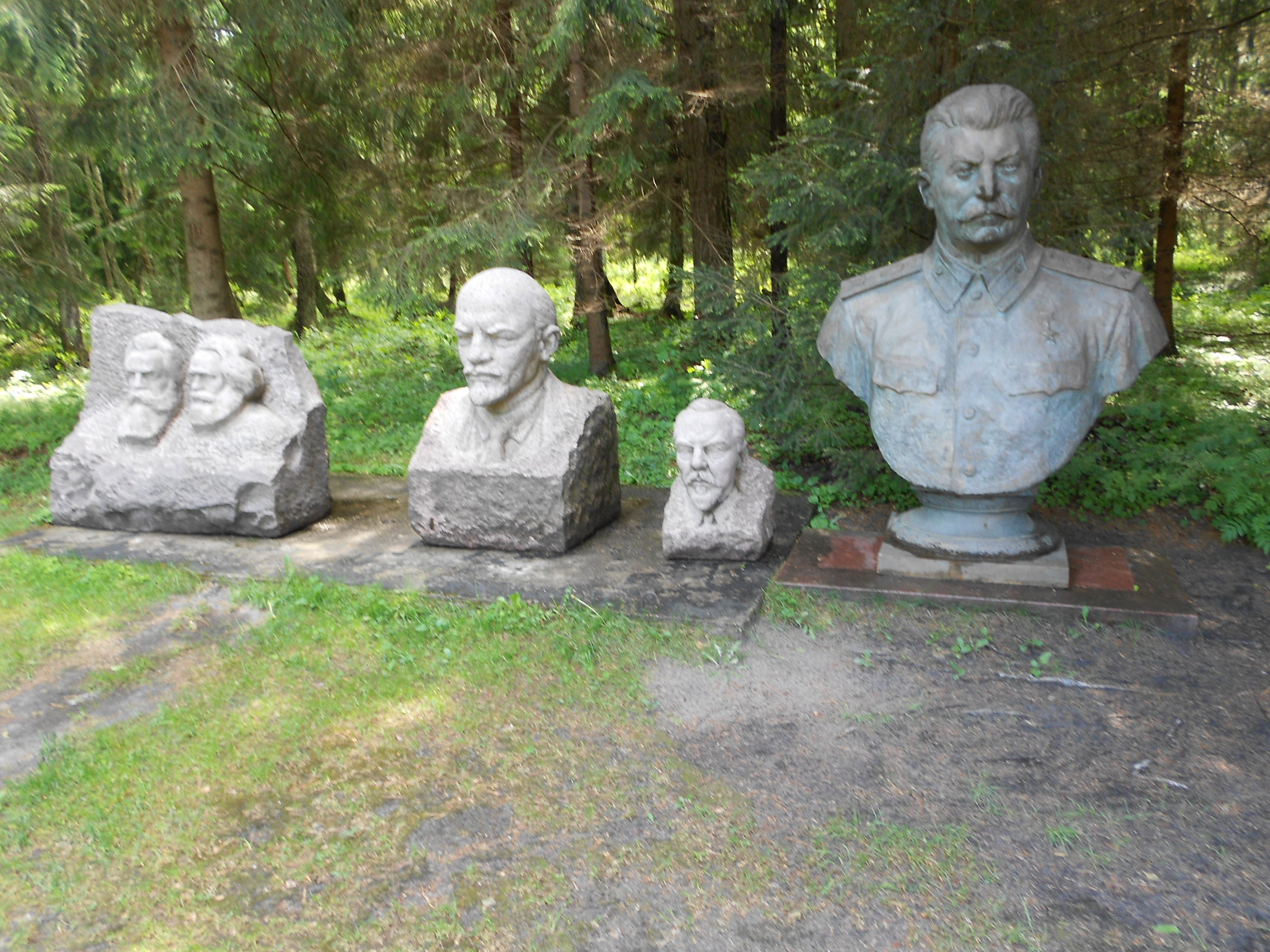 All the gang!